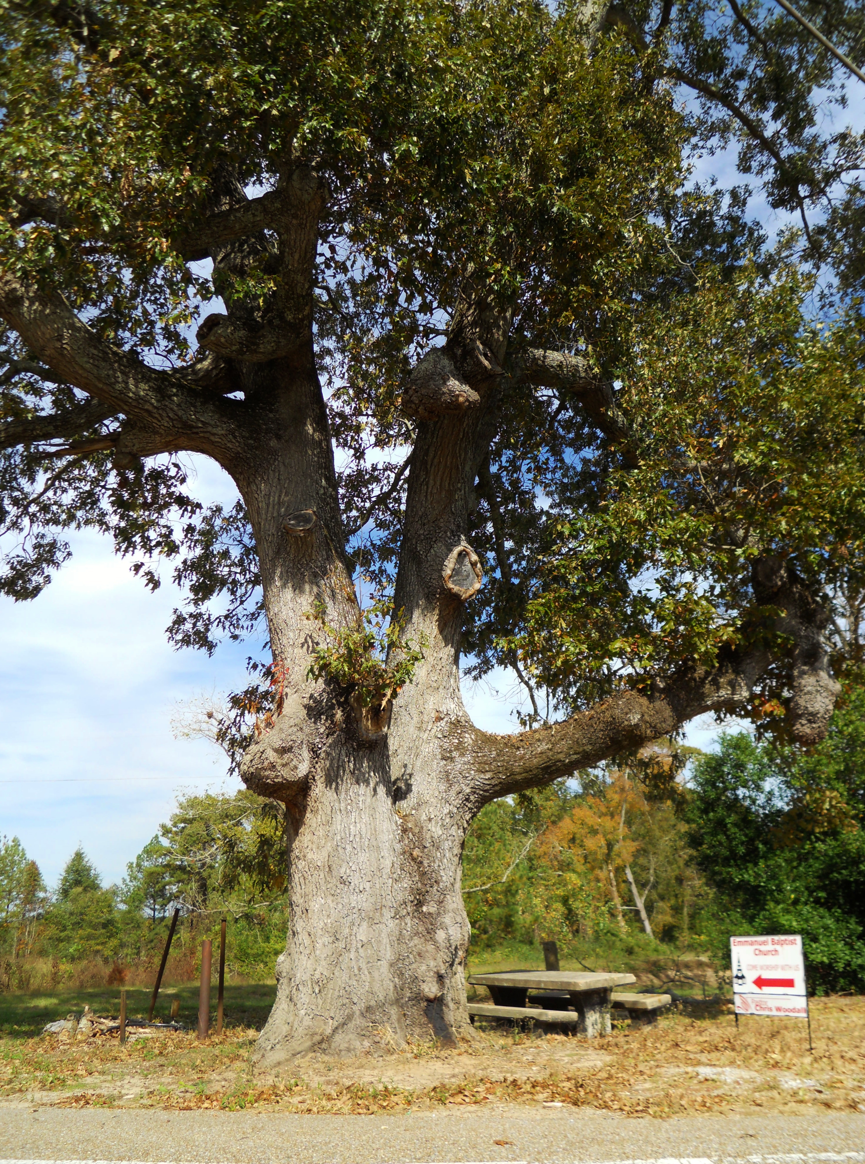 This is a photograph of the Old Oak Tree in Elamville, AL.